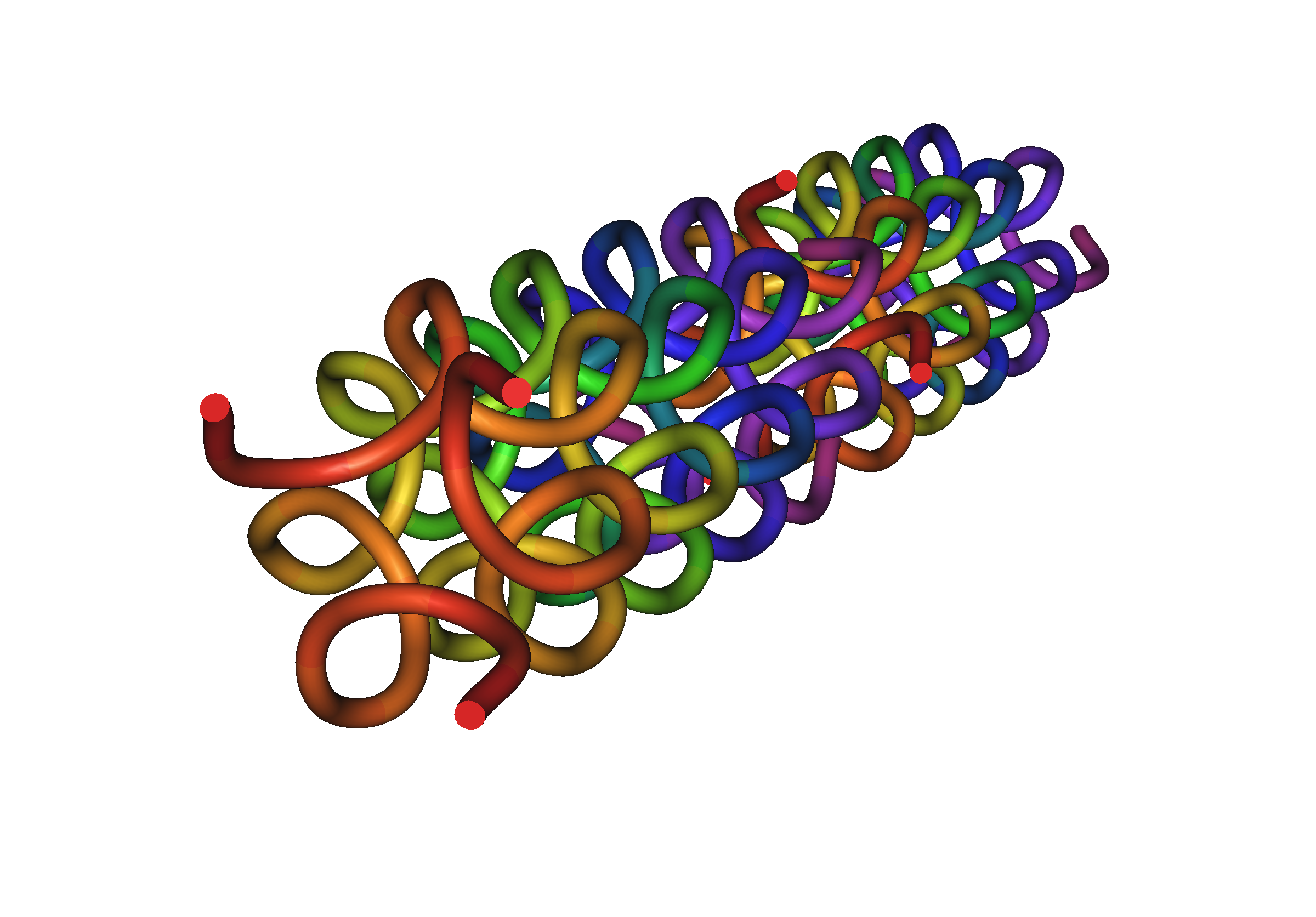 1K6F_Crystal Structure Of The Collagen Triple Helix Model Pro- Pro-Gly103